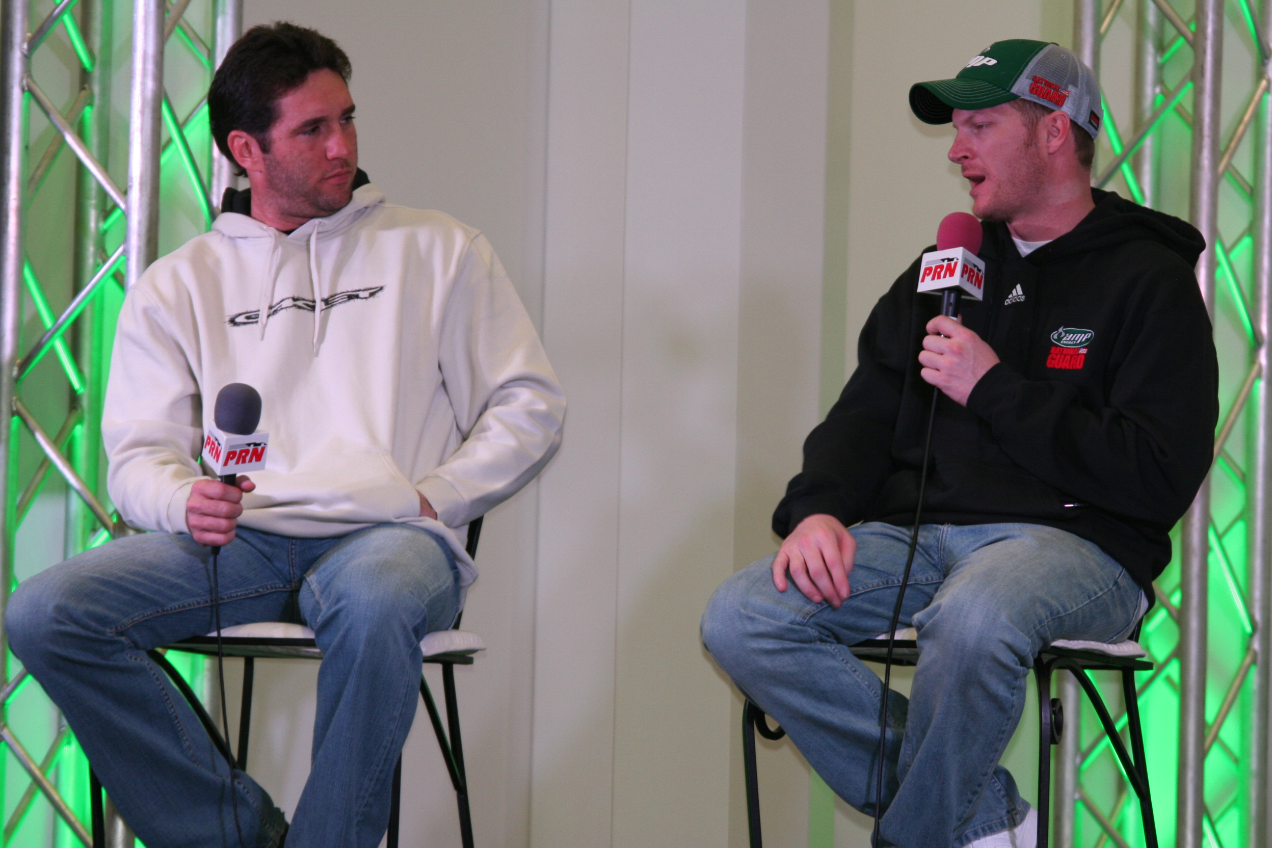 NASCAR drivers Elliott Sadler and Dale Earnhardt, Jr. being interviewed by PRN (Performance Racing Network. Shot by The Daredevil" at Daytona during Speedweeks 2008